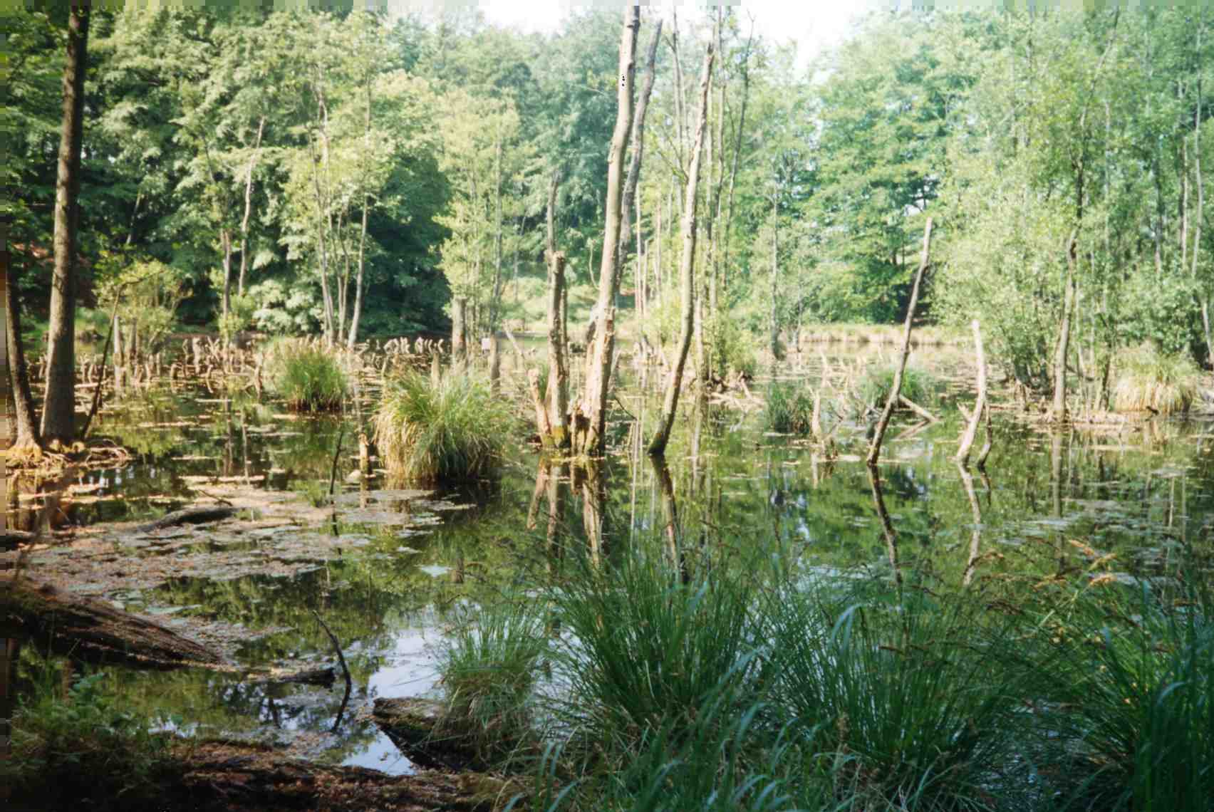 Møns Klint, Møn, Denmark: Inside the woods of Klinteskov